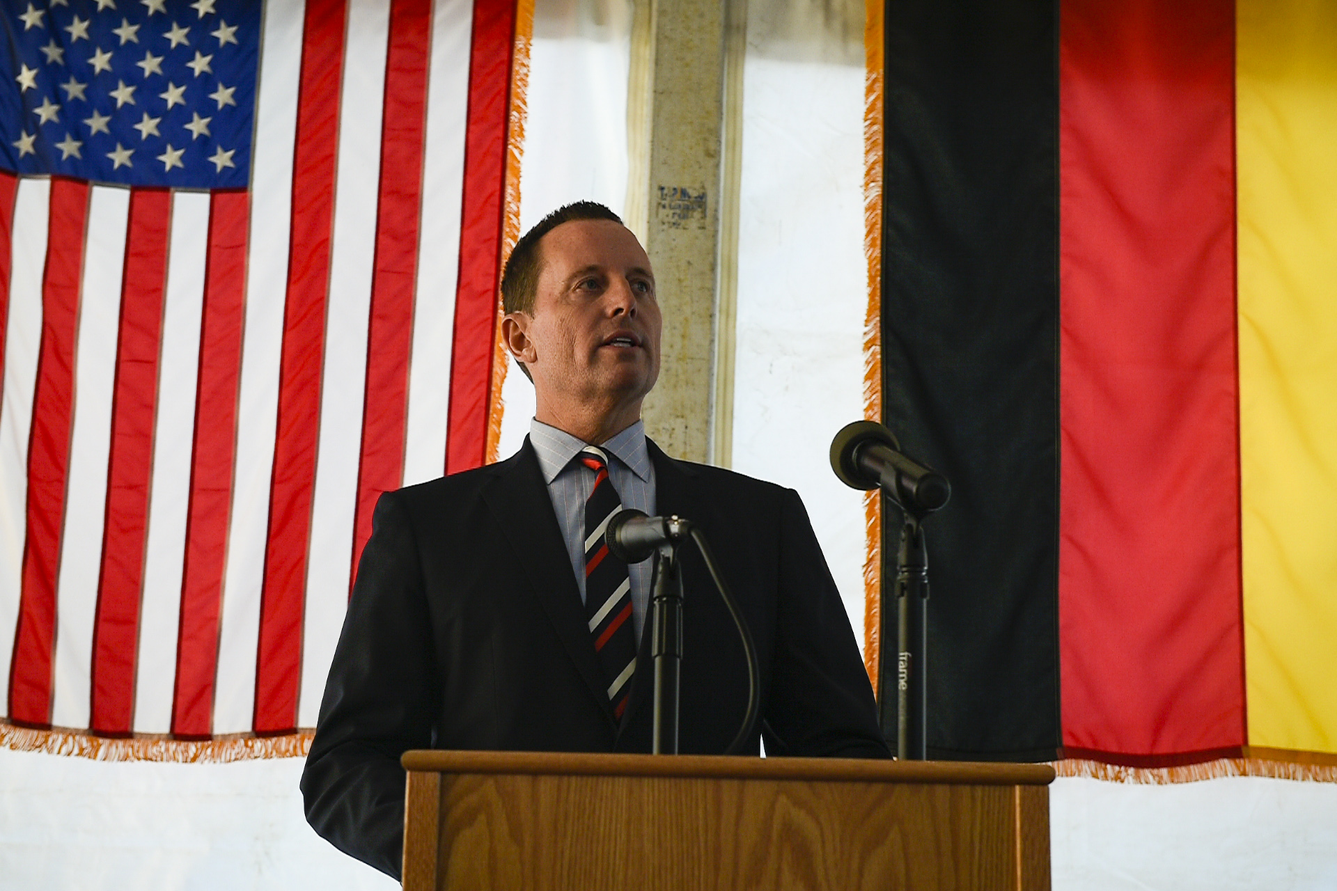 180615-N-XT273-1953 KIEL, Germany (June 15, 2018) Richard Grenell, U.S. Ambassador to Germany, delivers remarks during a reception aboard the Blue Ridge-class command and control ship USS Mount Whitney (LCC 20) June 15, 2018, in Kiel, Germany, for Kiel Week. Mount Whitney, forward-deployed to Gaeta, Italy, operates with a combined crew of U.S. Navy Sailors and Military Sealift Command civil service mariners. (U.S. Navy photo by Mass Communication Specialist 1st Class Justin Stumberg/Released)